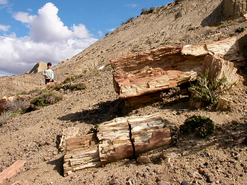 Petrified wood from the Cretaceous-Paleogene of Chubut, Argentina